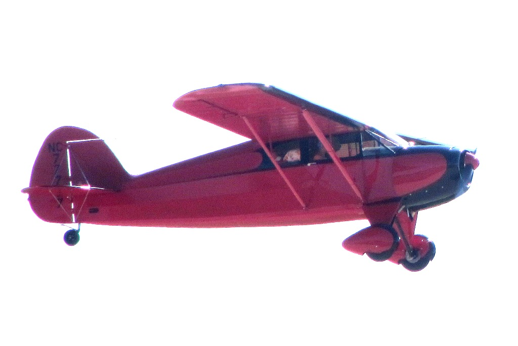 Funk Model B-85-C Bee